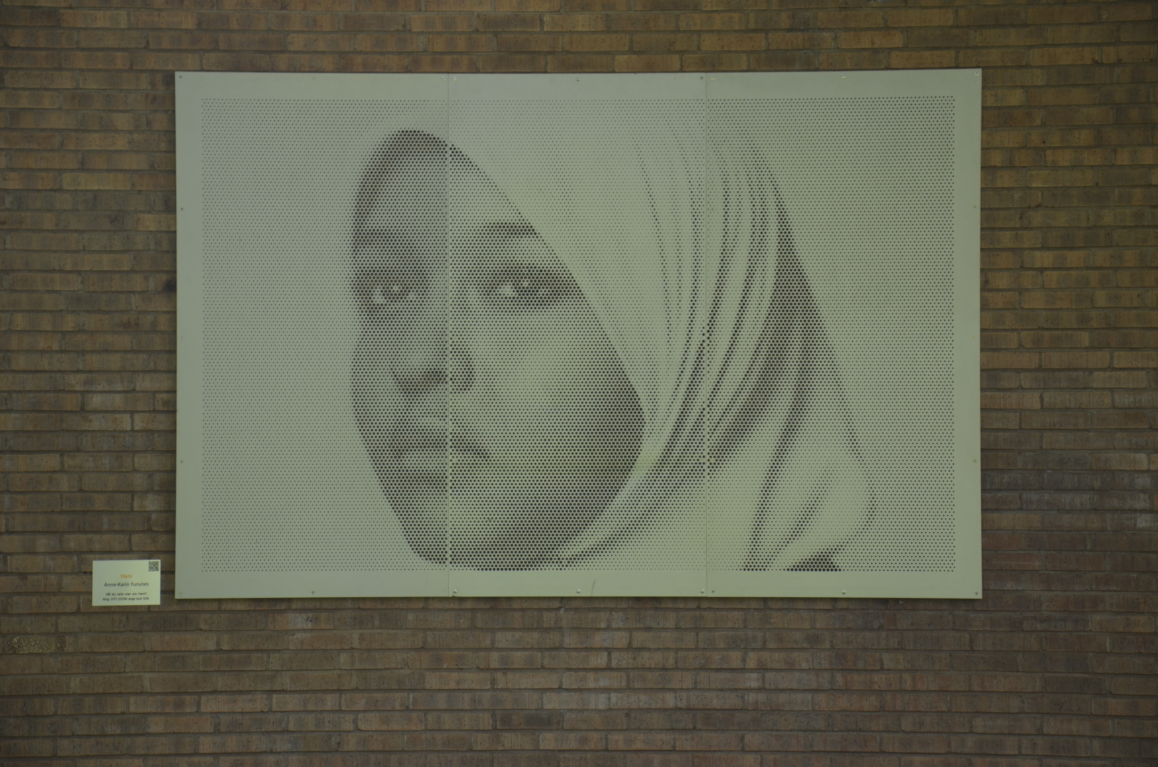 Anna-Karin Furunes' Hani. Borås